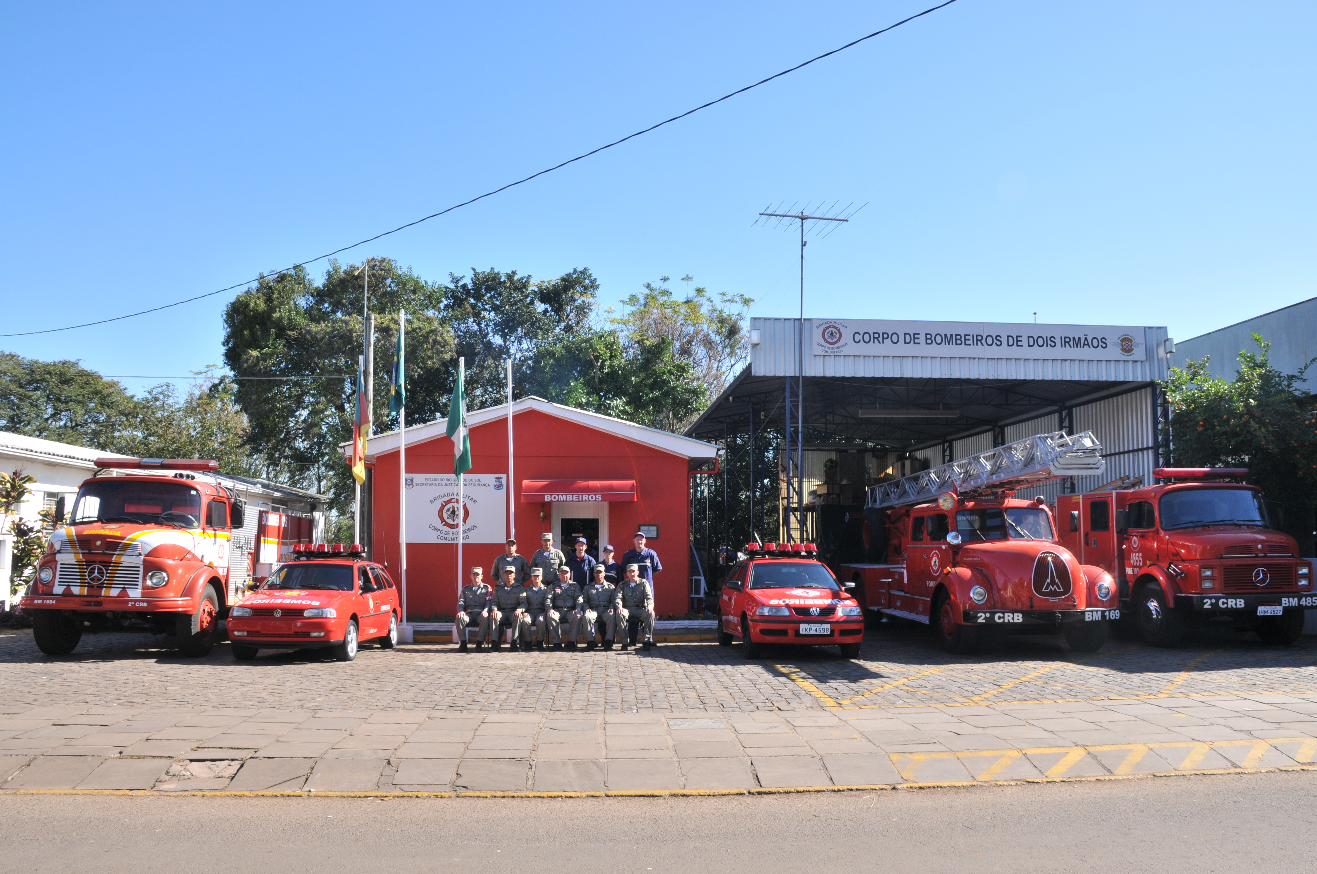 photo CBDI